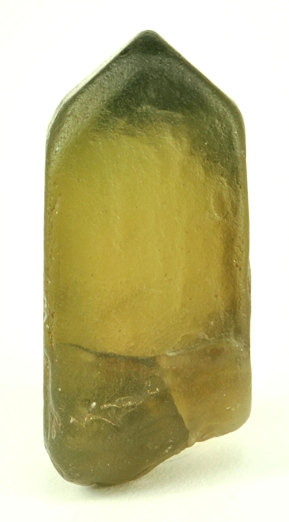 Zircon Locality: Thabeikyin, Mogok, Sagaing District, Mandalay Division, Burma (Myanmar) (Locality at ) Size: miniature, 3.4 x 1.4 x 1.4 cm Zircon This is an approximately 23-gram specimen of TOTALLY GEMMY, transparent, olive-green zircon! It is unusual for both the size, the color, and the translucency, and is a major Mogok gem crystal specimen, thus. The piece has a very sharp and equant termination, though exhibits slight water-worn surfaces characteristic of many gems from the Mogok gem tracts. Old specimen, from finds of the mid to late 1990s,sold by "Burma Bill" Larson from his collection to a collector at that time. I have seen no other comparable. In halogen lights it looks a bit yellowish, and in fluorescents (as shown) a bit more green in color.